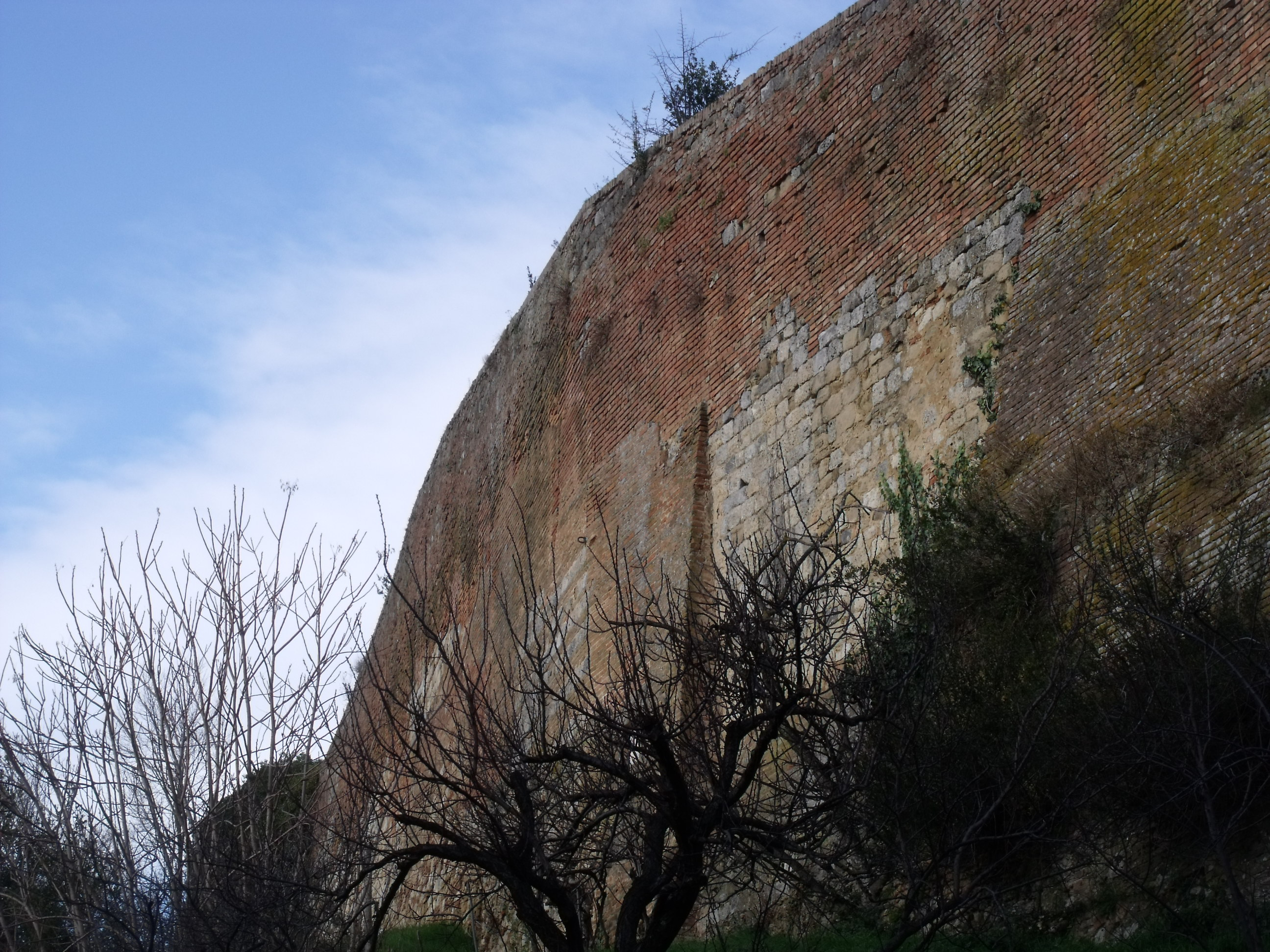 City Wall of Siena near Fontegiusta from Via Montluc